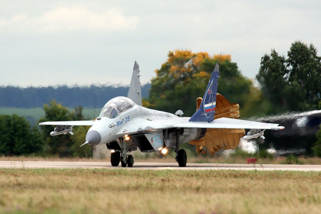 Ka-52 Alligator at the MAKS Airshow 2009.